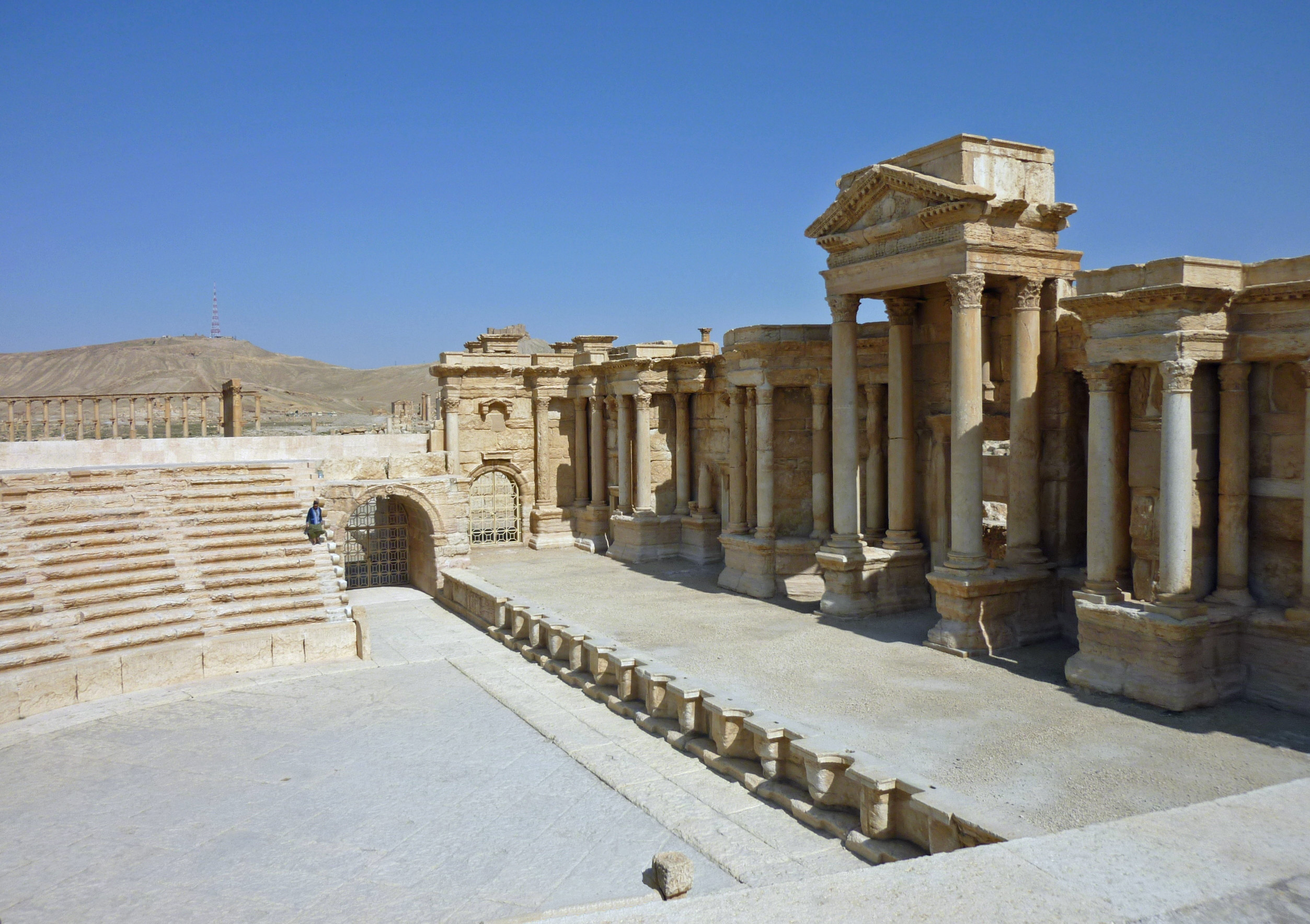 Stage of the ancient Roman theatre of Palmyra, Syria